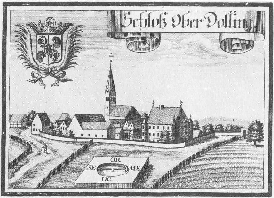 Oberdolling, engraving by Michael Wening, 1701